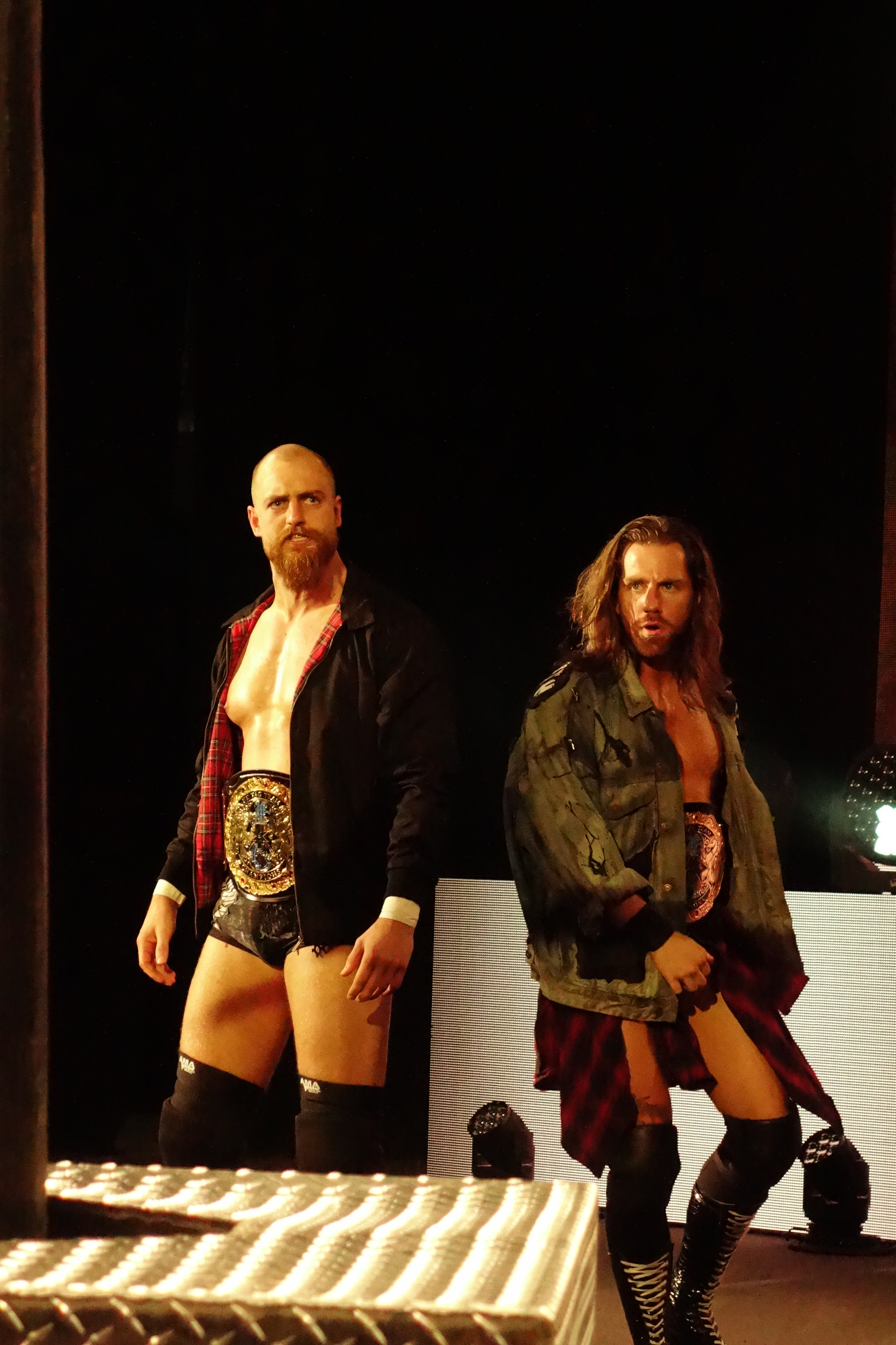 Gibson and Drake in 2019.